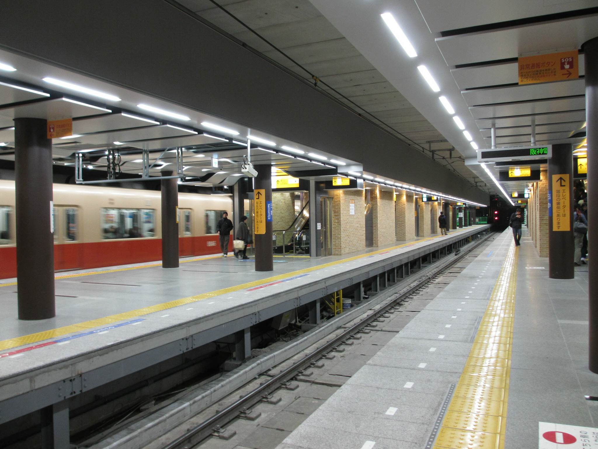 Hanshin Sannomiya Station platform